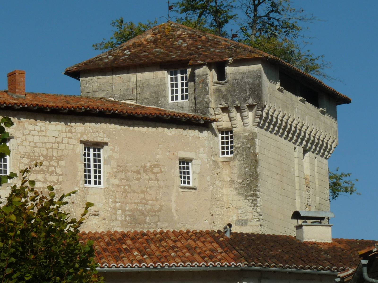 castle of Aubeterre-sur-Dronne, Charente, SW France